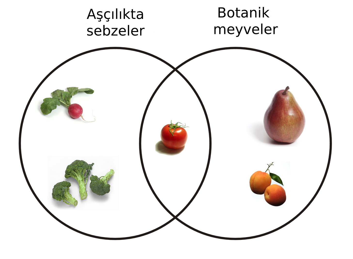 Euler diagram representing the relationship between (botanical) fruits and vegetables. Botanical fruits that are not vegetables are culinary fruits.